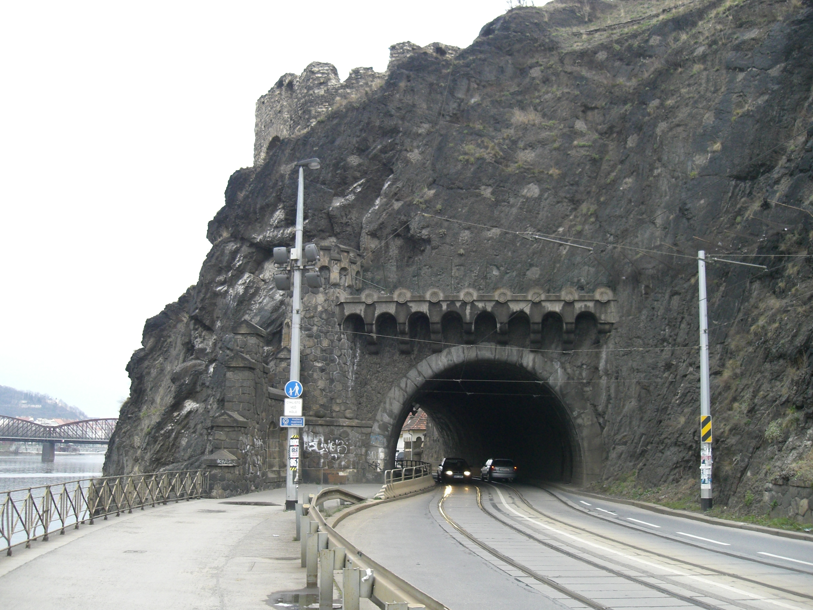 Vyšehrad tunel in Prague, the site from Podolí. Prague, March 2007